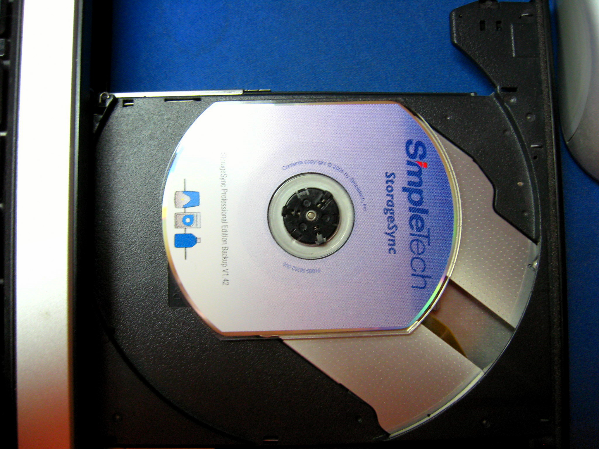 A bootable business card in a CD drive.